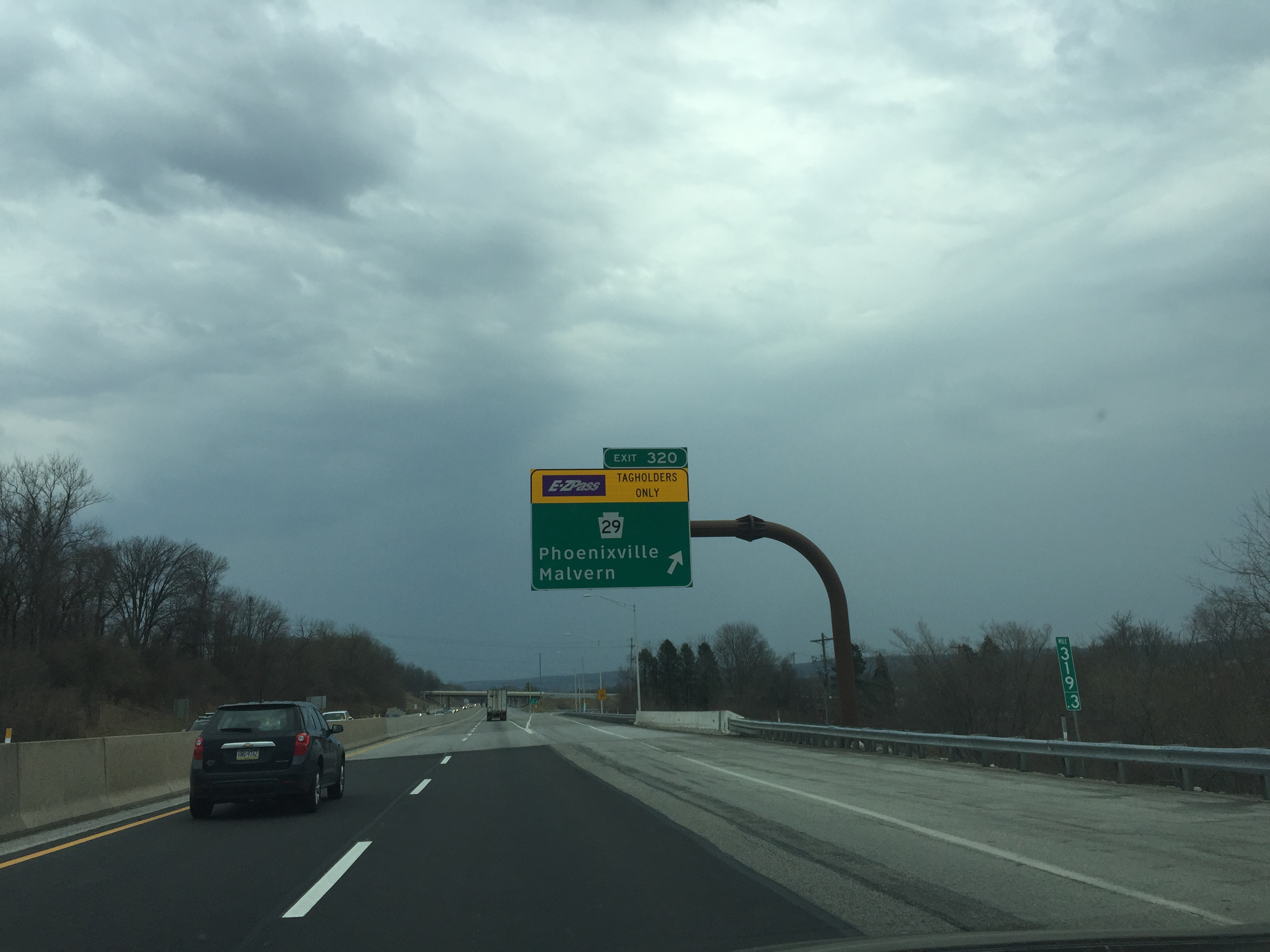 PA 29 ez pass exit